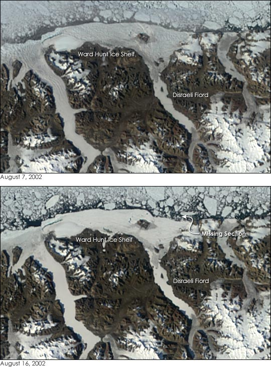 NASA MODIS satellite pictures of Ward Hunt Ice Shelf with Ward Hunt Island off the north coast of Ellesmere Island, Nunavut, Canada. It shows the break-up of parts of that ice shelf in August 2002